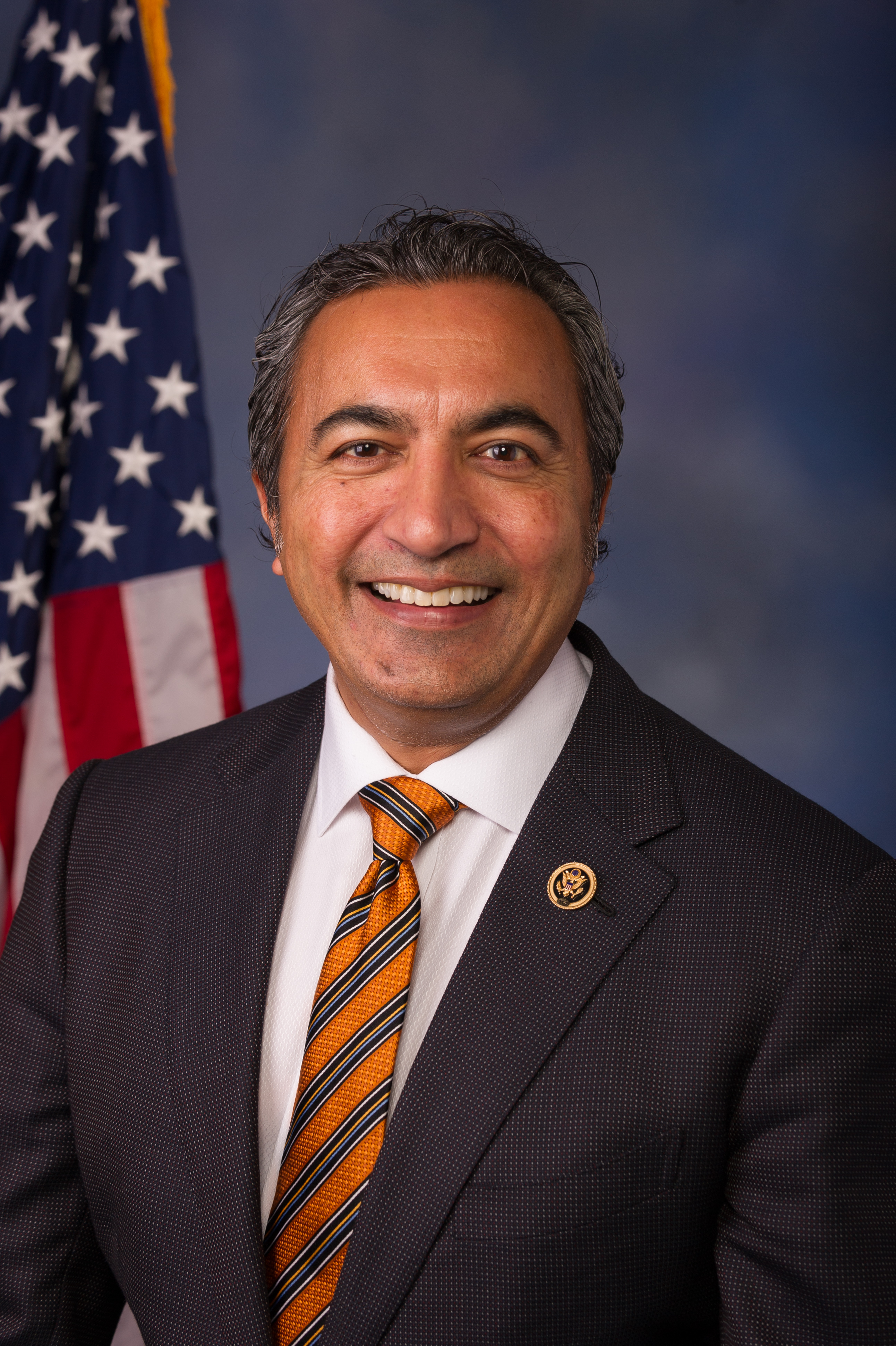 Ami Bera's official Congress portrait